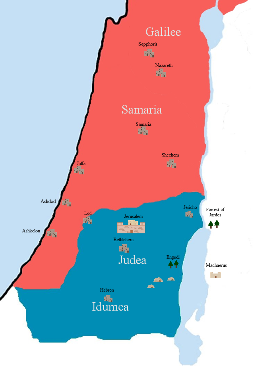 Map of Judea under Hycanus II, following the conquests of Pompey Magnus in 63 BCE.